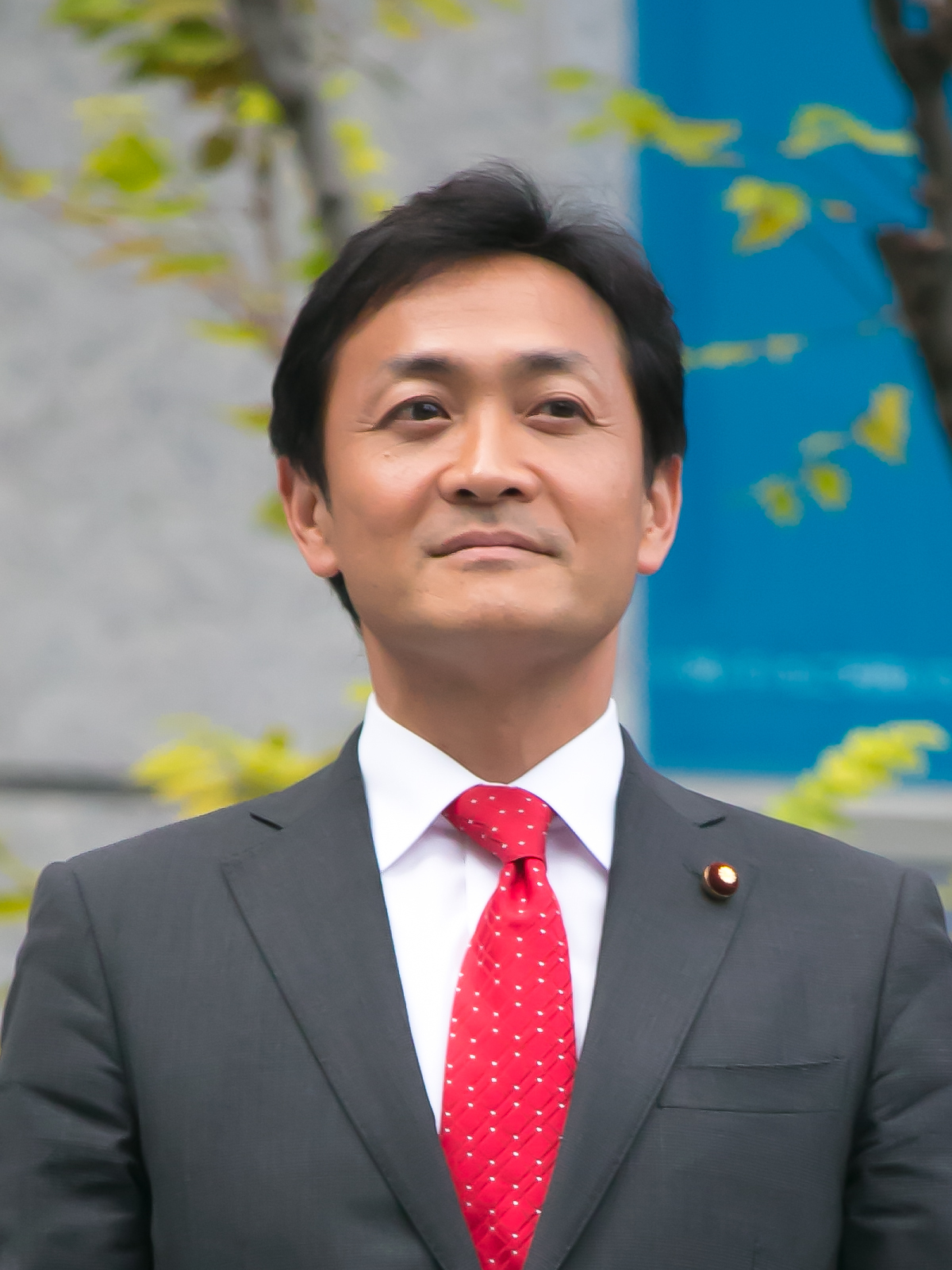 Yuichiro Tamaki (Democratic Party (Japan). Member of the House of Representatives of Japan).